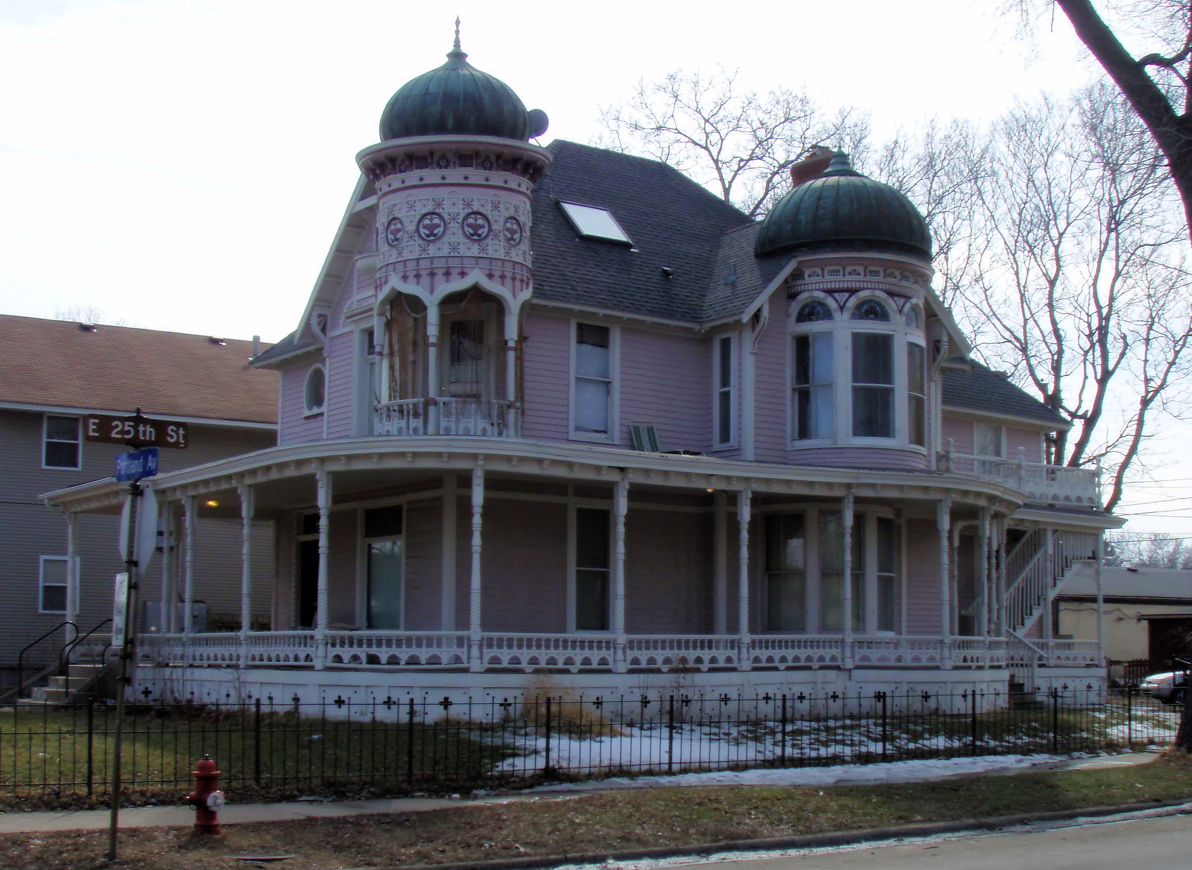 Bardwell-Ferrant House in Minneapolis, Minnesota, listed on the National Register of Historic Places.